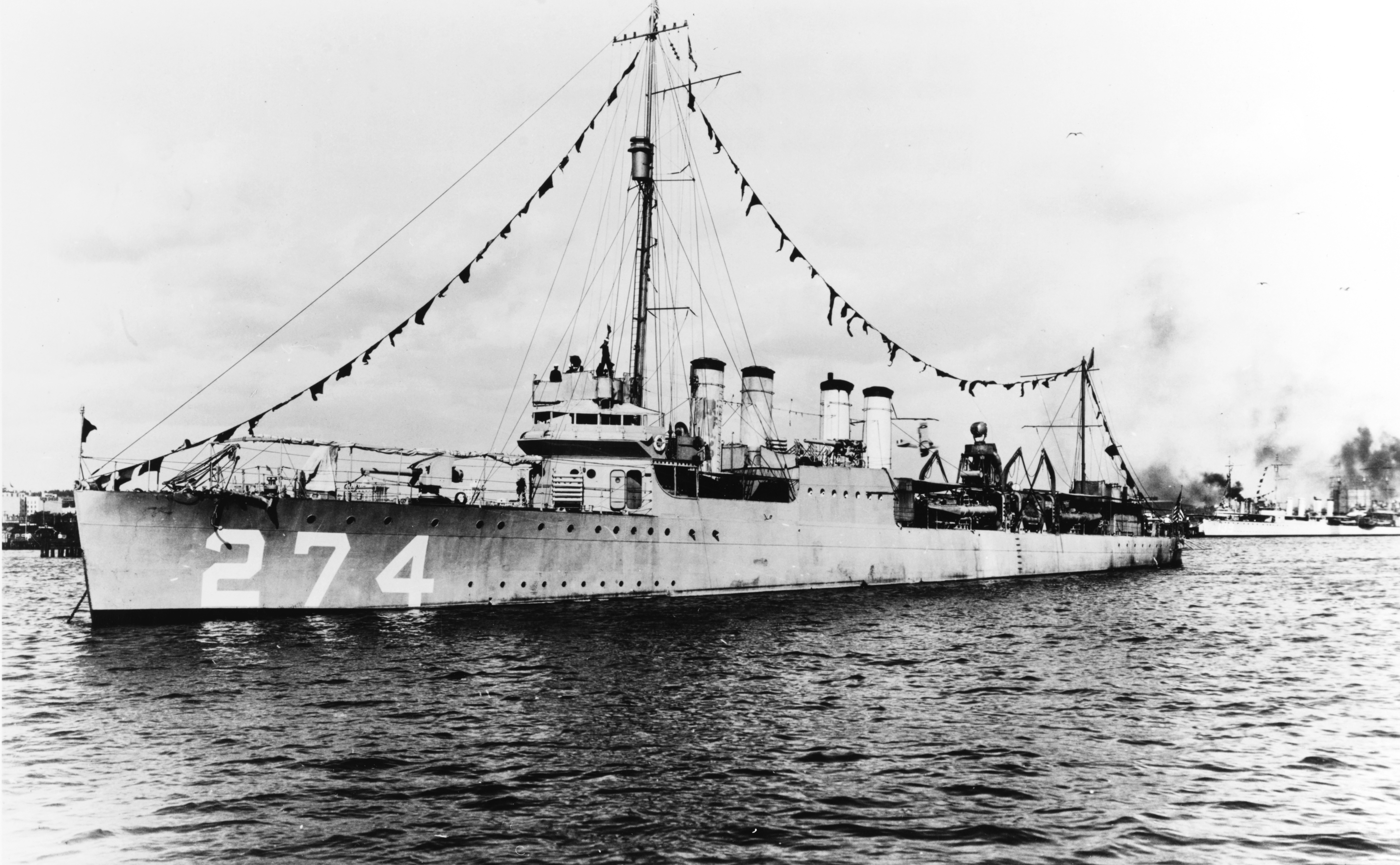 The U.S. Navy destroyer USS Meade (DD-274) at anchor off San Diego, California (USA), circa in 1920. Ship visible in the right distance is USS Ward (DD-139).